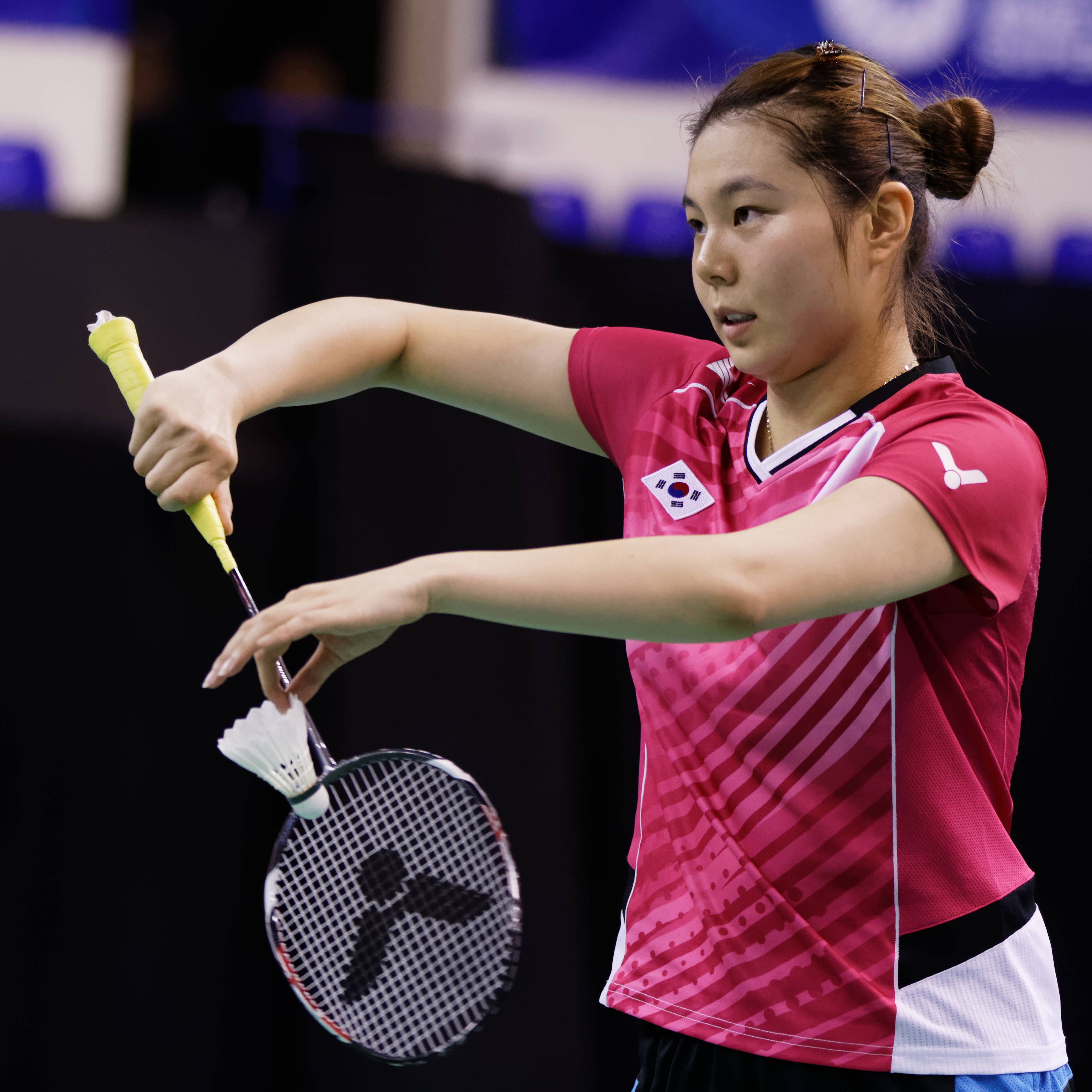 2013 French open. Mixed's doubles eightfinal. Kim Ki-jung and Kim So-young vs Praveen Jordan and Vita Marissa.